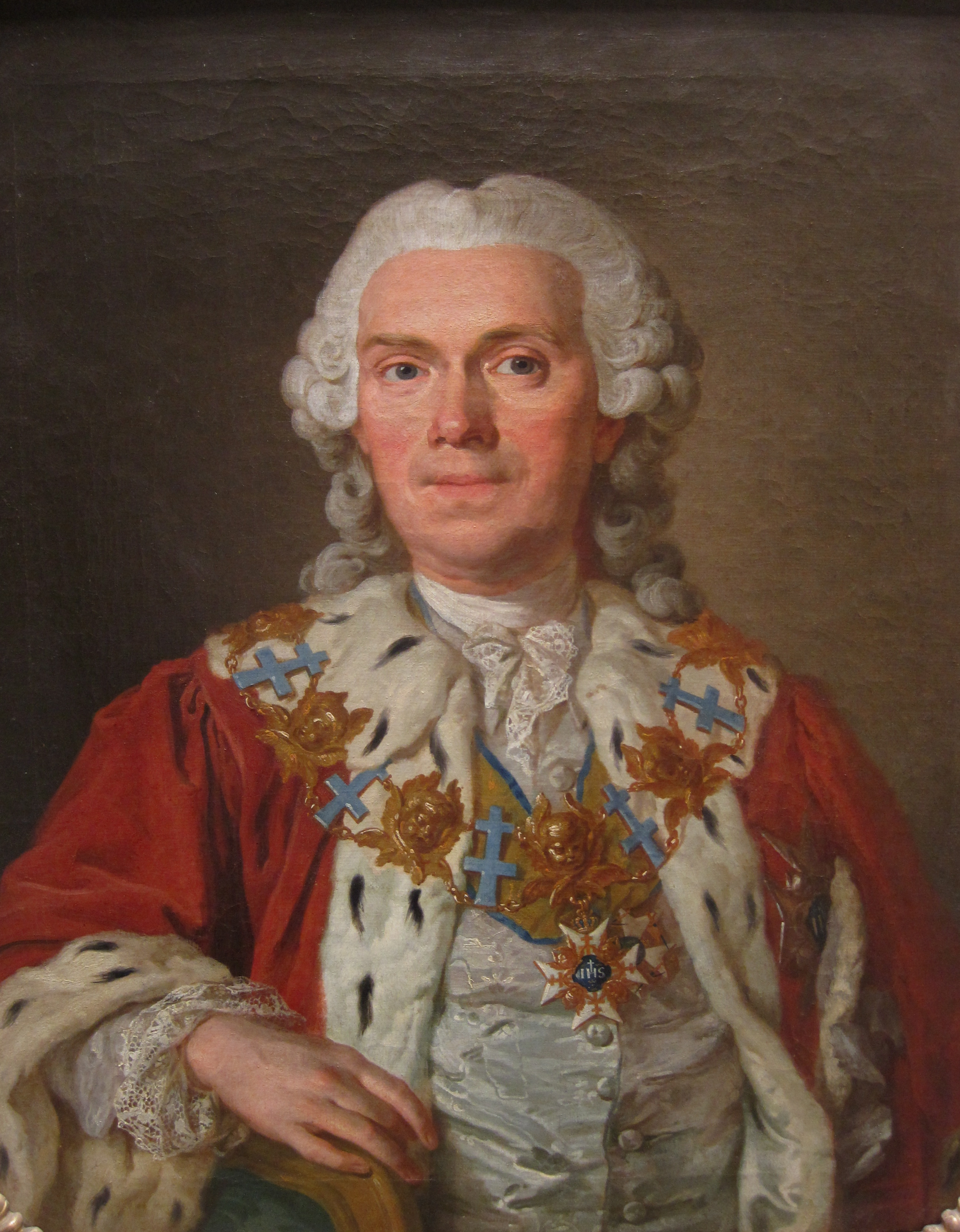 Gustaf Adolf Hjärne (1715-1805), Swedish count, member of the Privy Council of Sweden and chancellor of Lund University